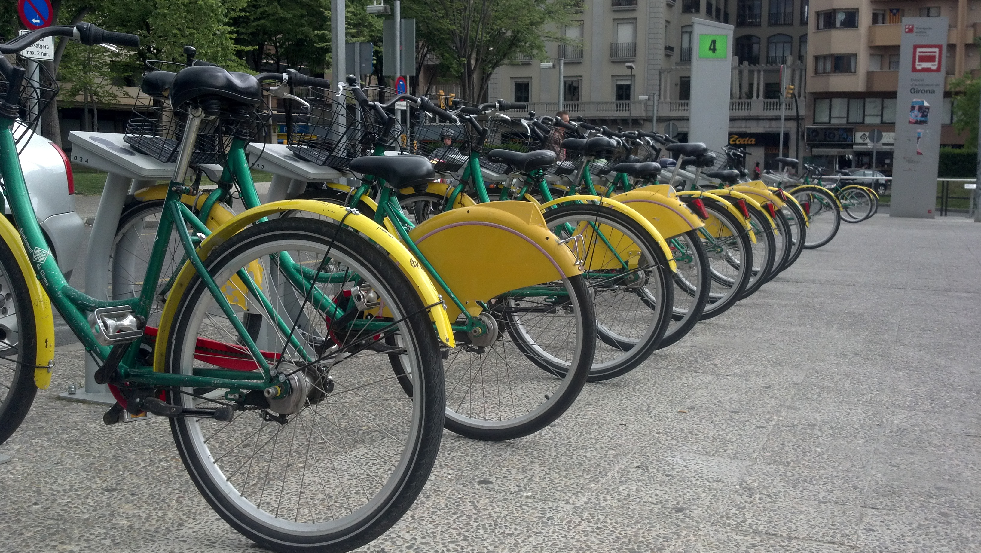 Bicicletas compartidas en Girona, España